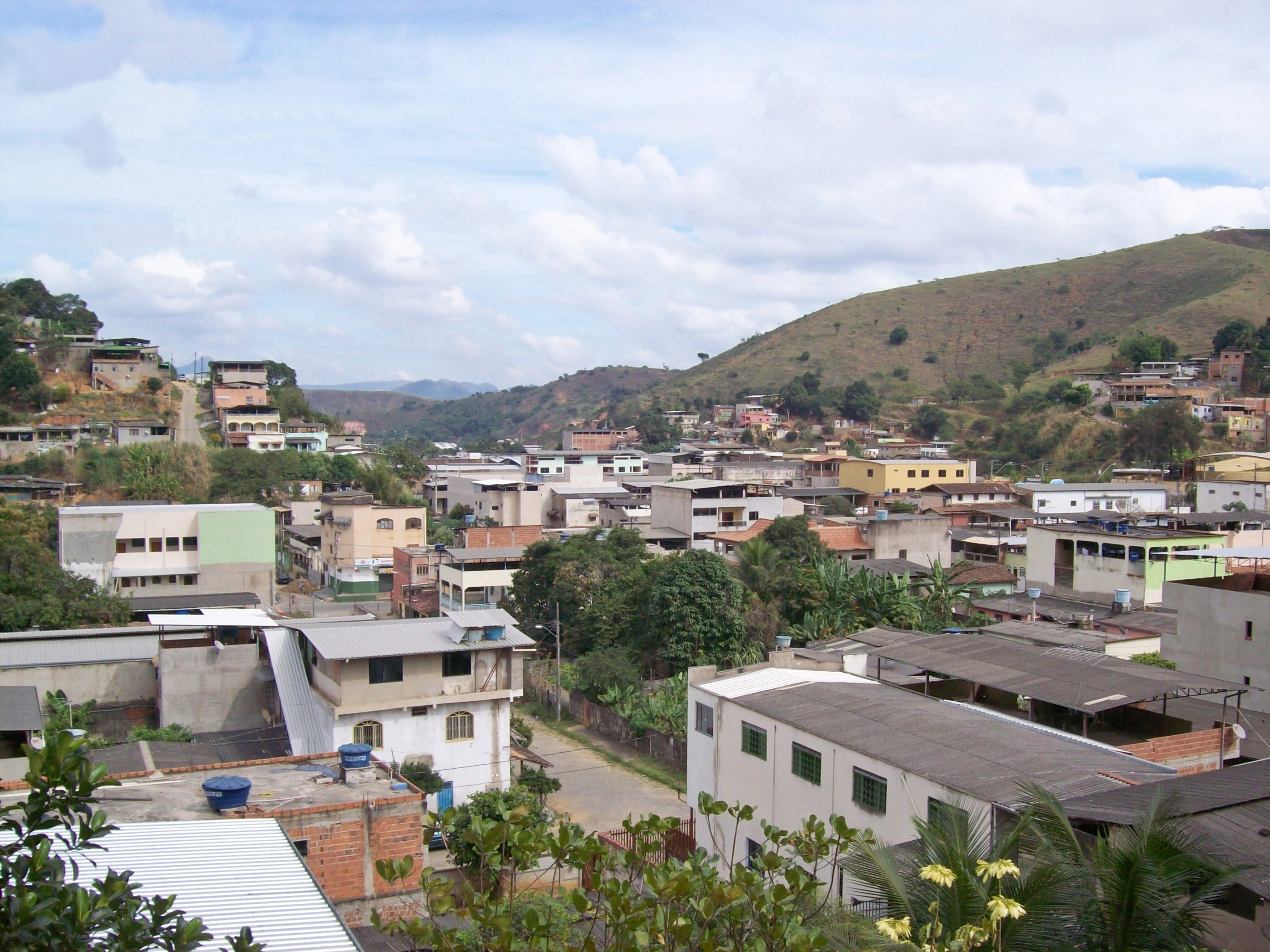 Partial view of the Caladinho neighborhood, in Coronel Fabriciano, Minas Gerais, Brazil.